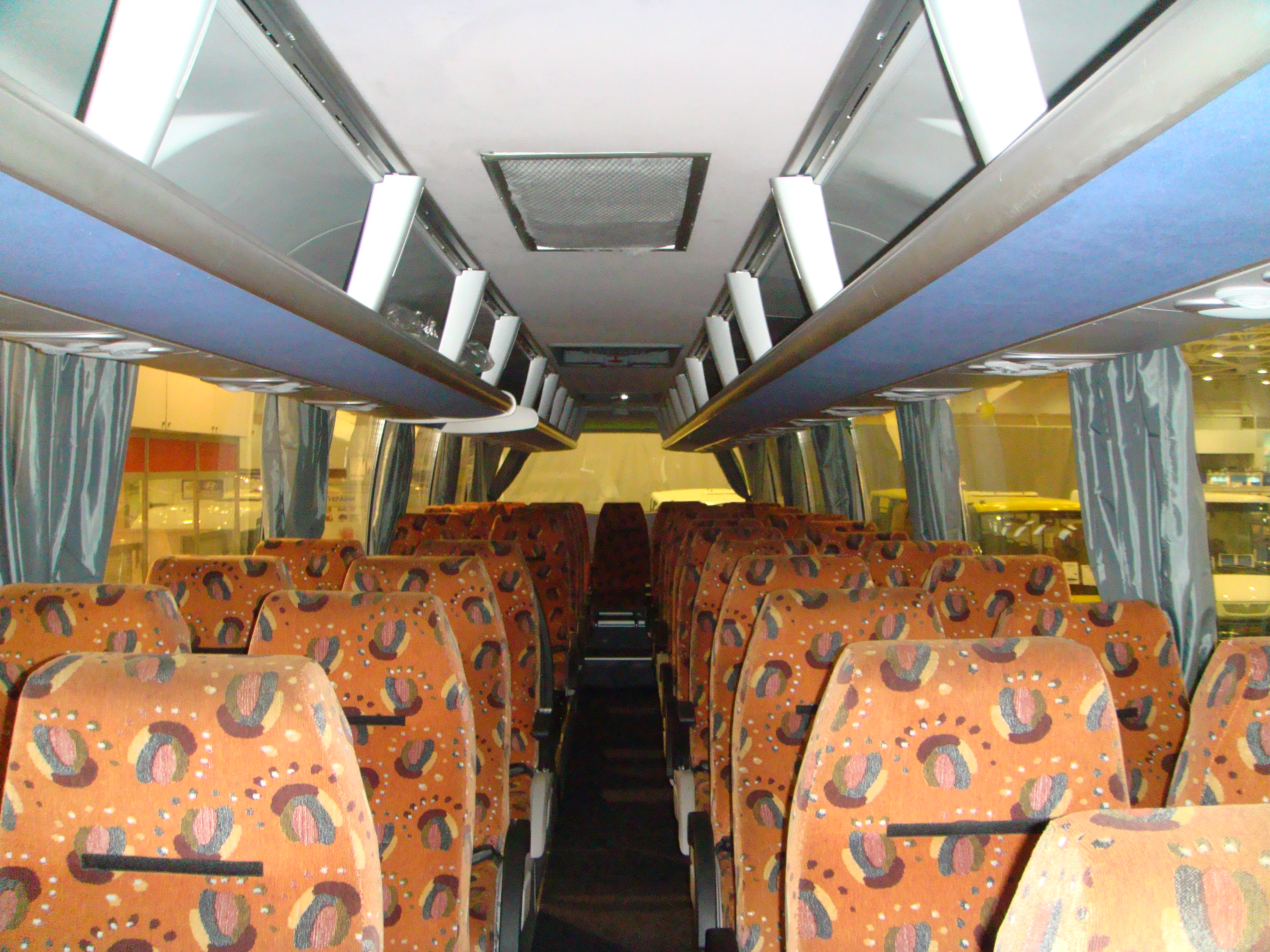 MAZ 251.050 coach interior in Kiev, Ukraine. TIR 2010.